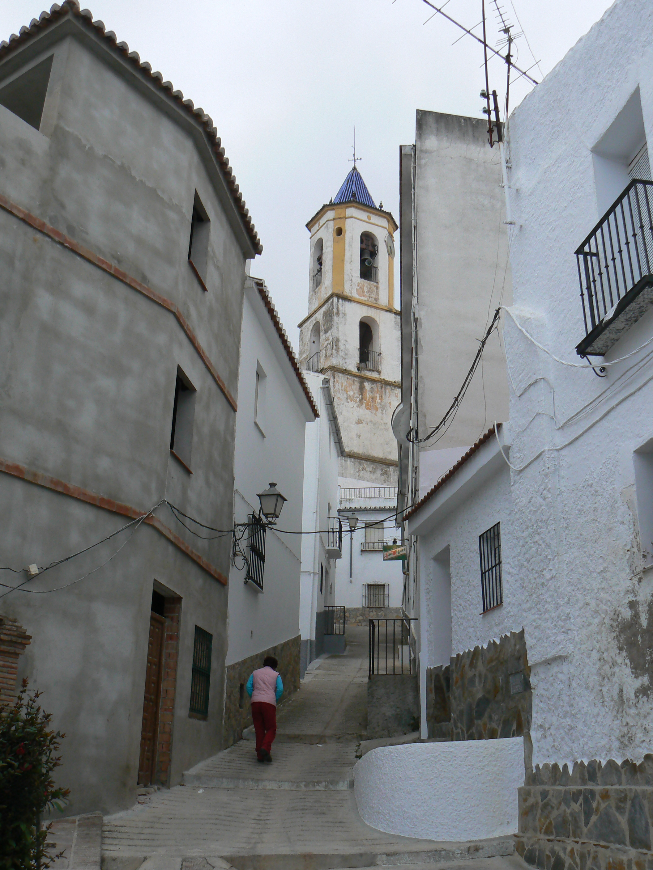 Yunquera, Málaga, Spain